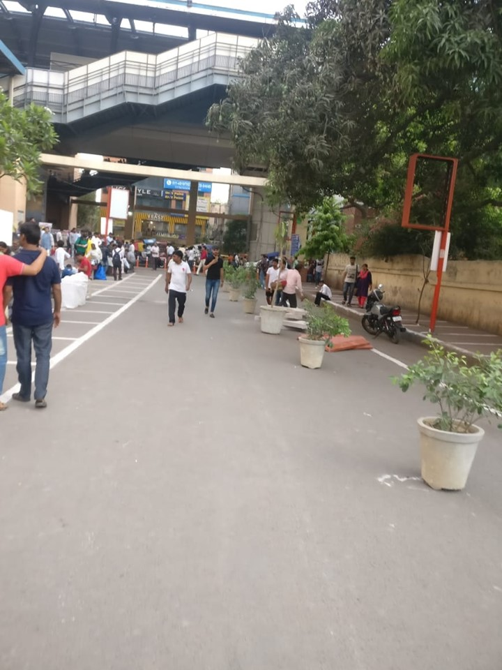 Karol Bagh Metro Station - Revitalized 2019